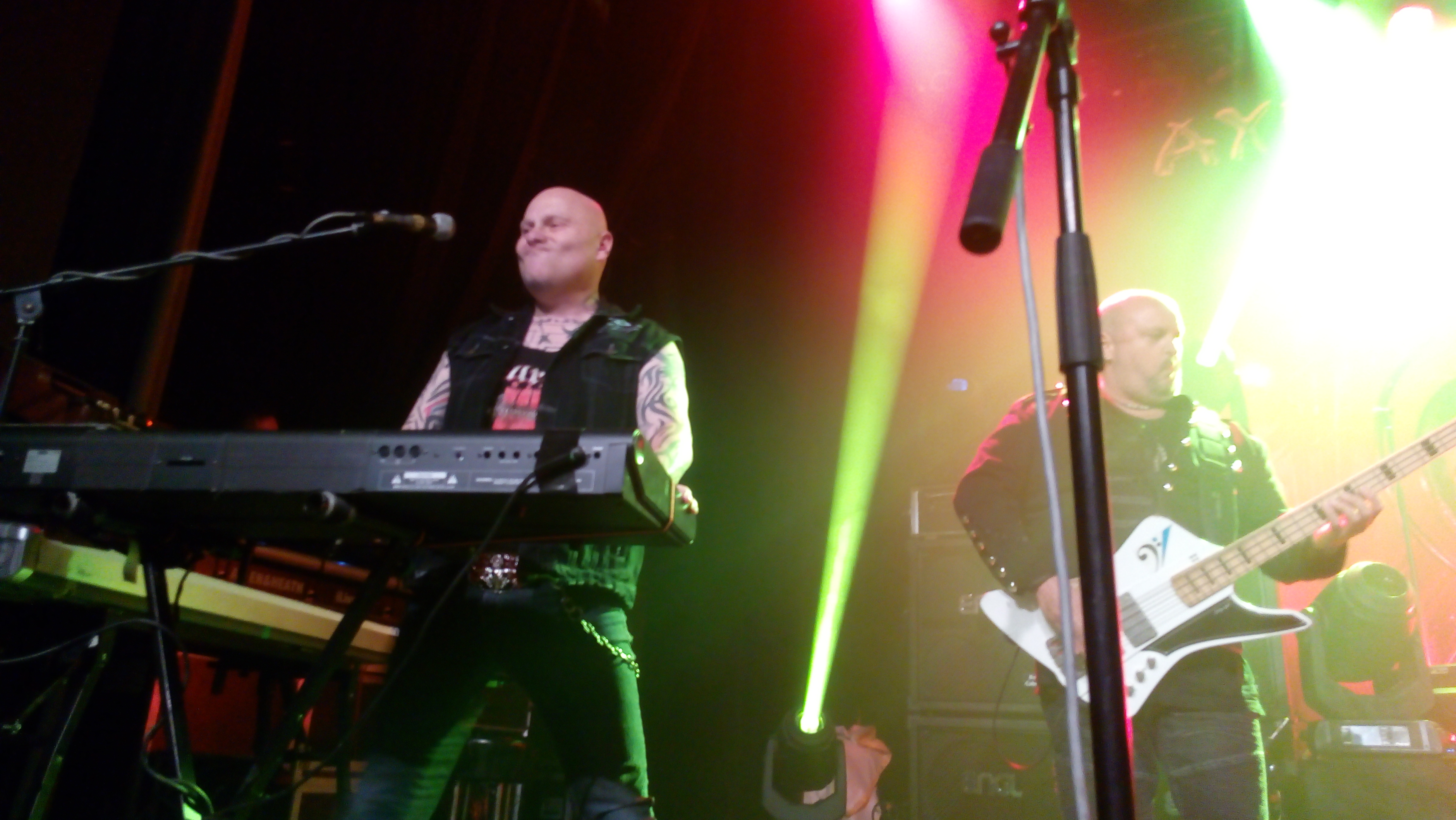 German musician Axel Rudi Pell with the band during the show in Prague building Palác Akropolis, 19. 10. 2018